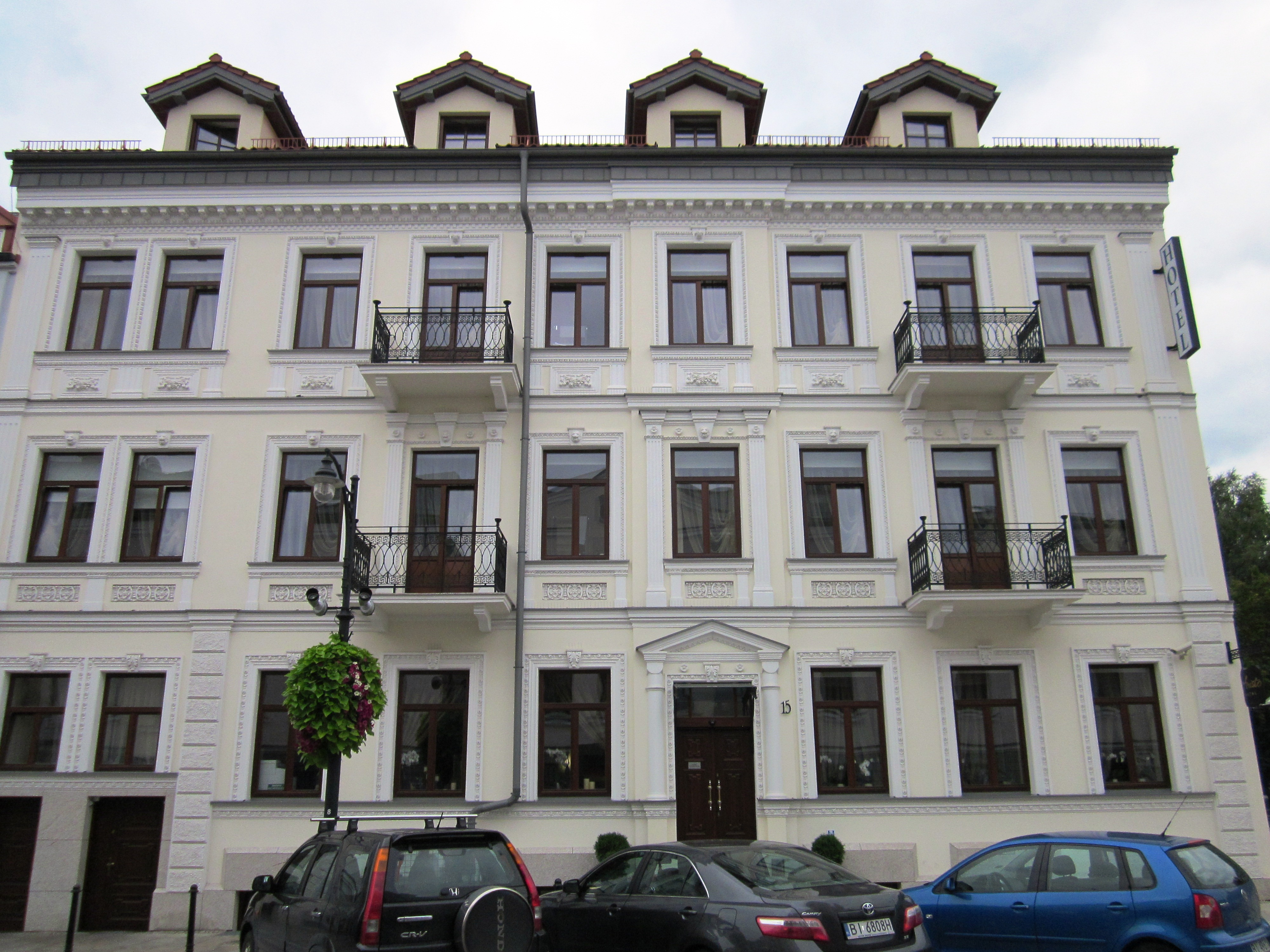 "Hotel Aristo" - Białystok, 15 Kilińskiego Street in Centrum ("Restaurant Savoy", Wine&bar, travel agencies).